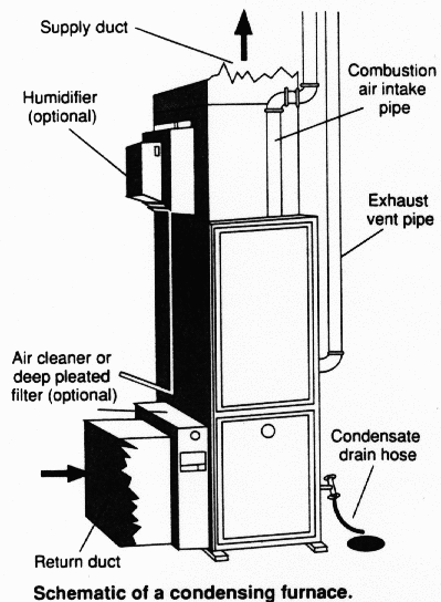 Condensing furnace diagram